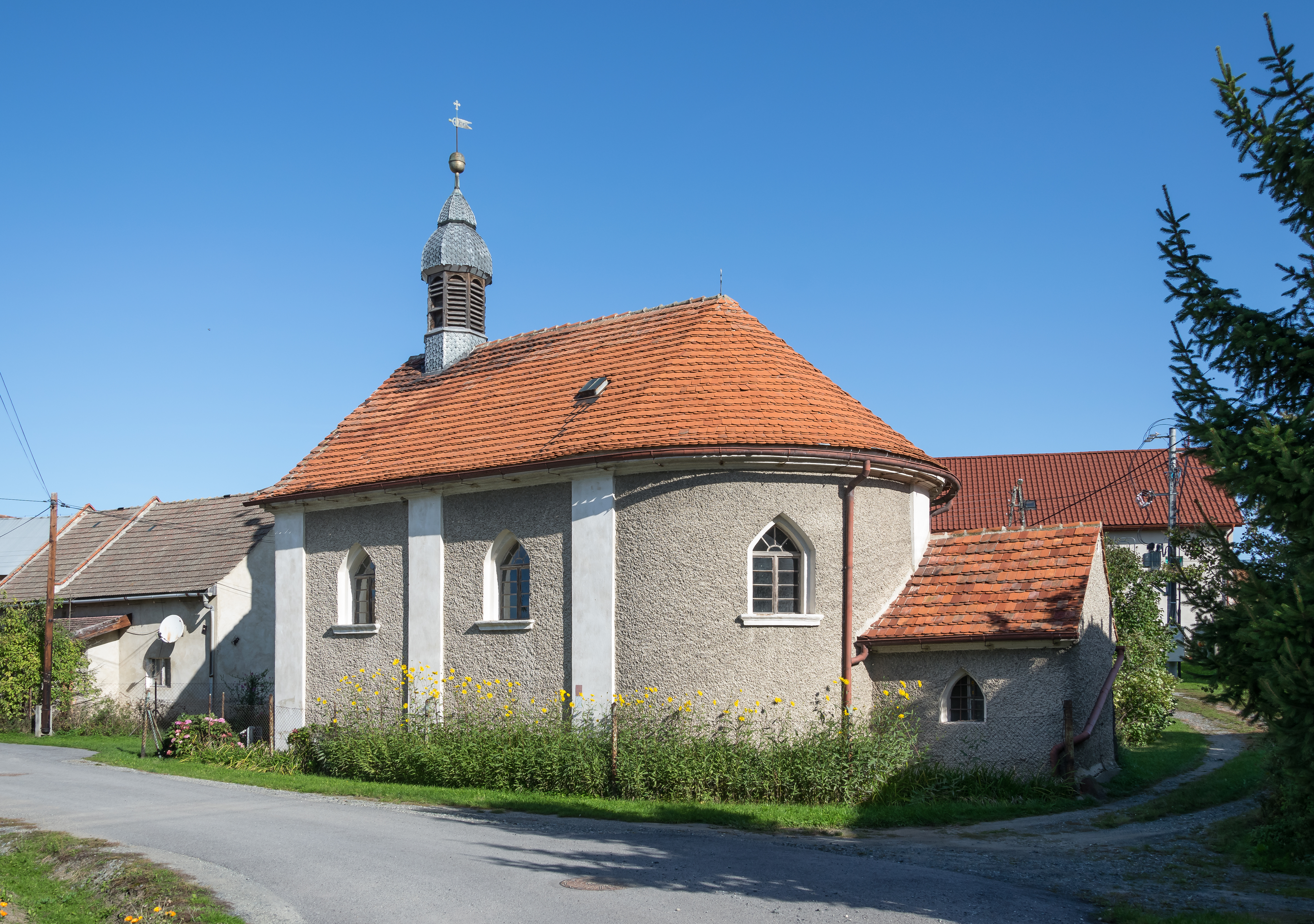 Holy Trinity church in Grochowiska